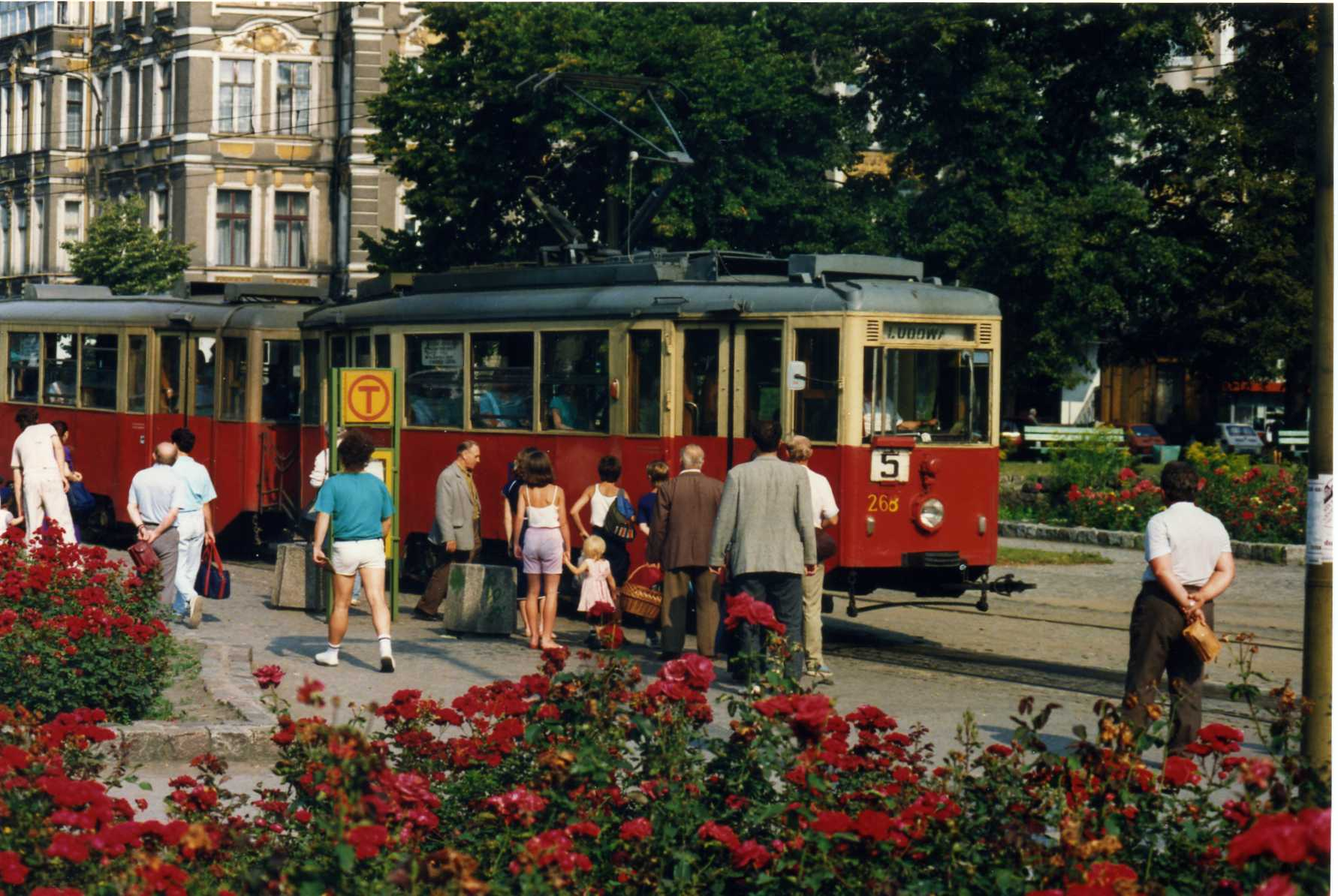 Konstal N type motor car no 268, on linie 5 to Ludowa